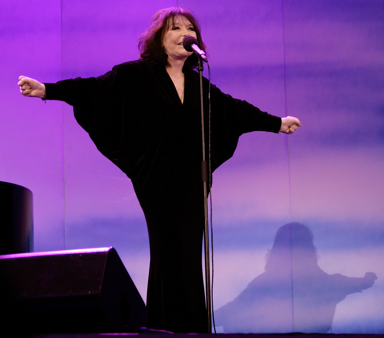 Juliette Gréco; concert at the opening of the Vienna Festival 2009